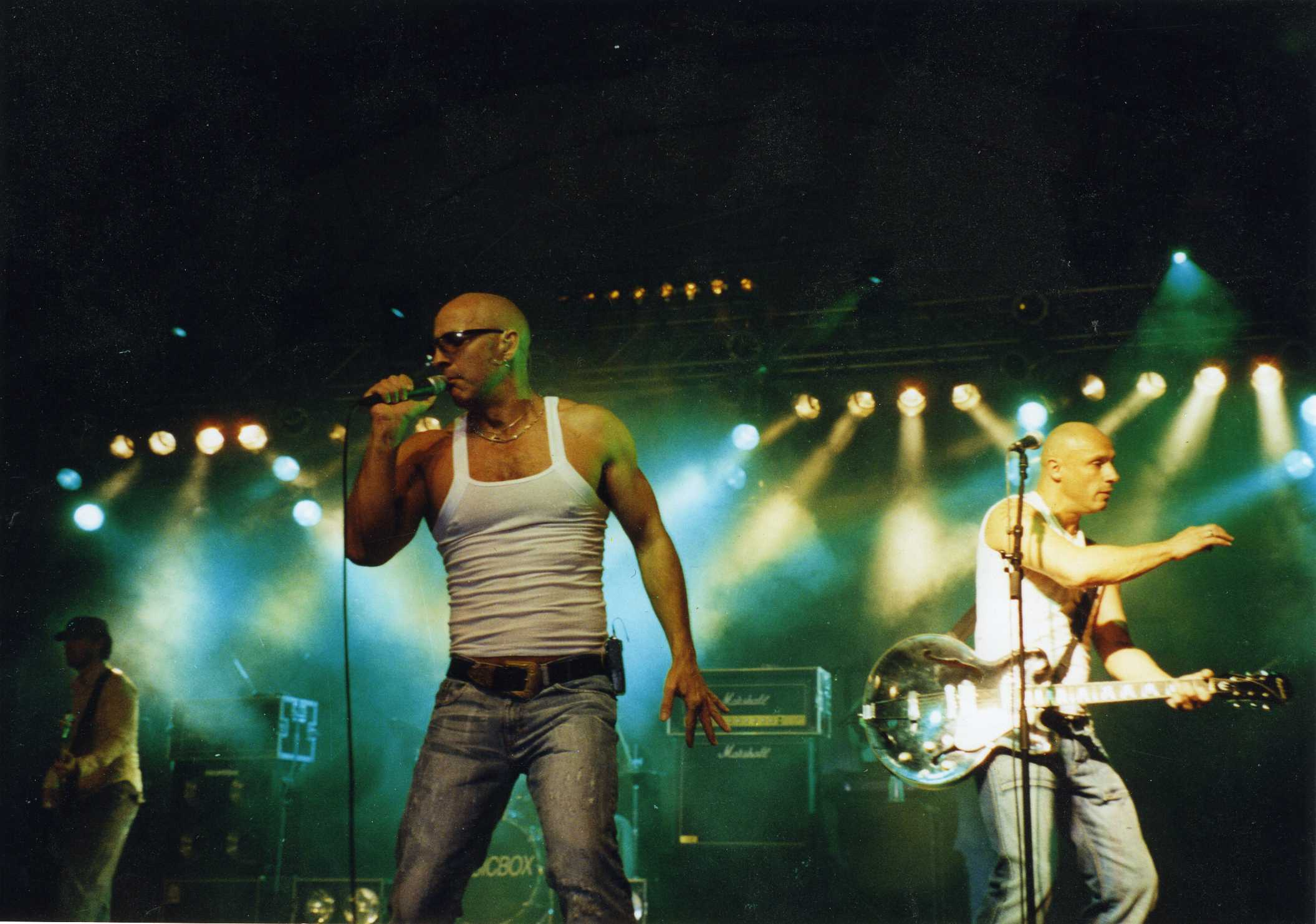 Right Said Fred's Richard and Fred Live on tour in Germany.